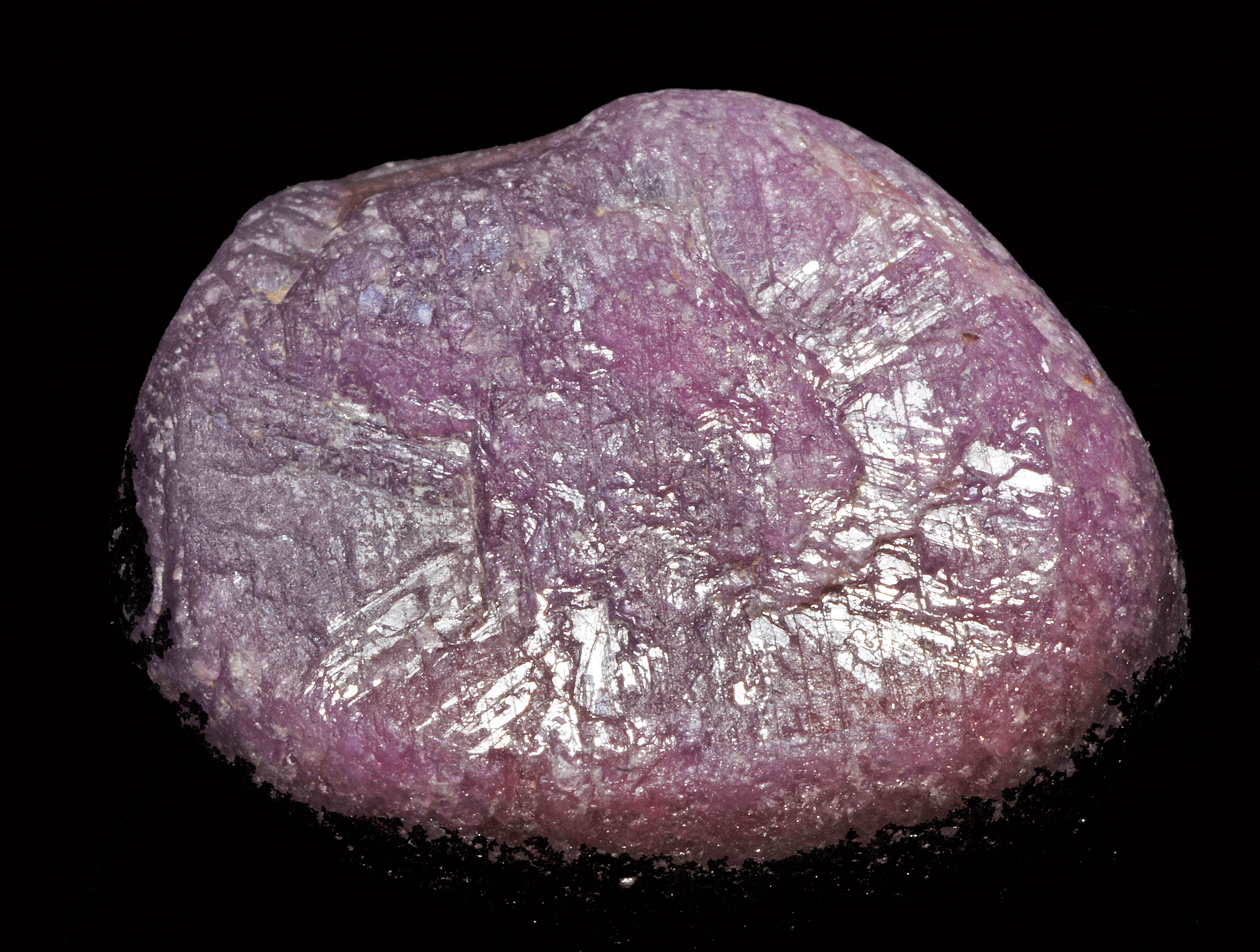 crystal of corundum var. ruby : Mysore District, Karnataka, India